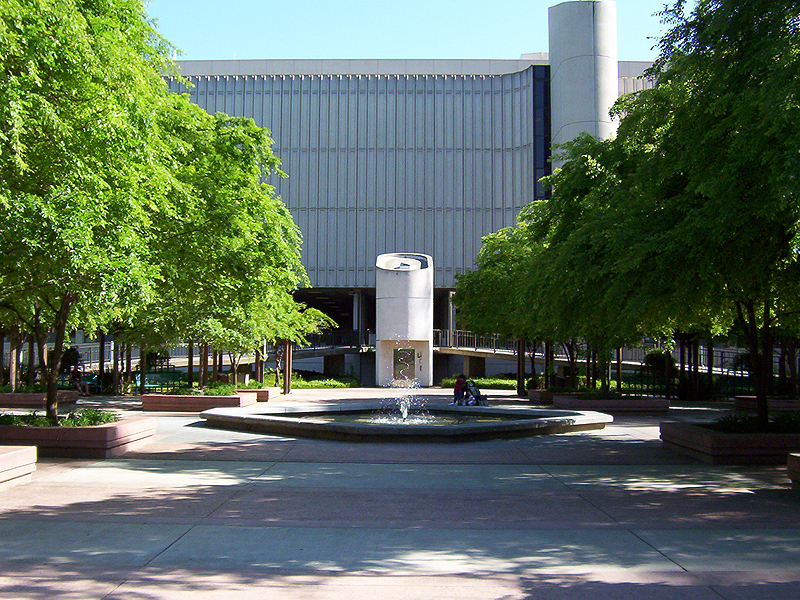 This is a photo of the Library Quad located on the campus of California State University, Sacramento.